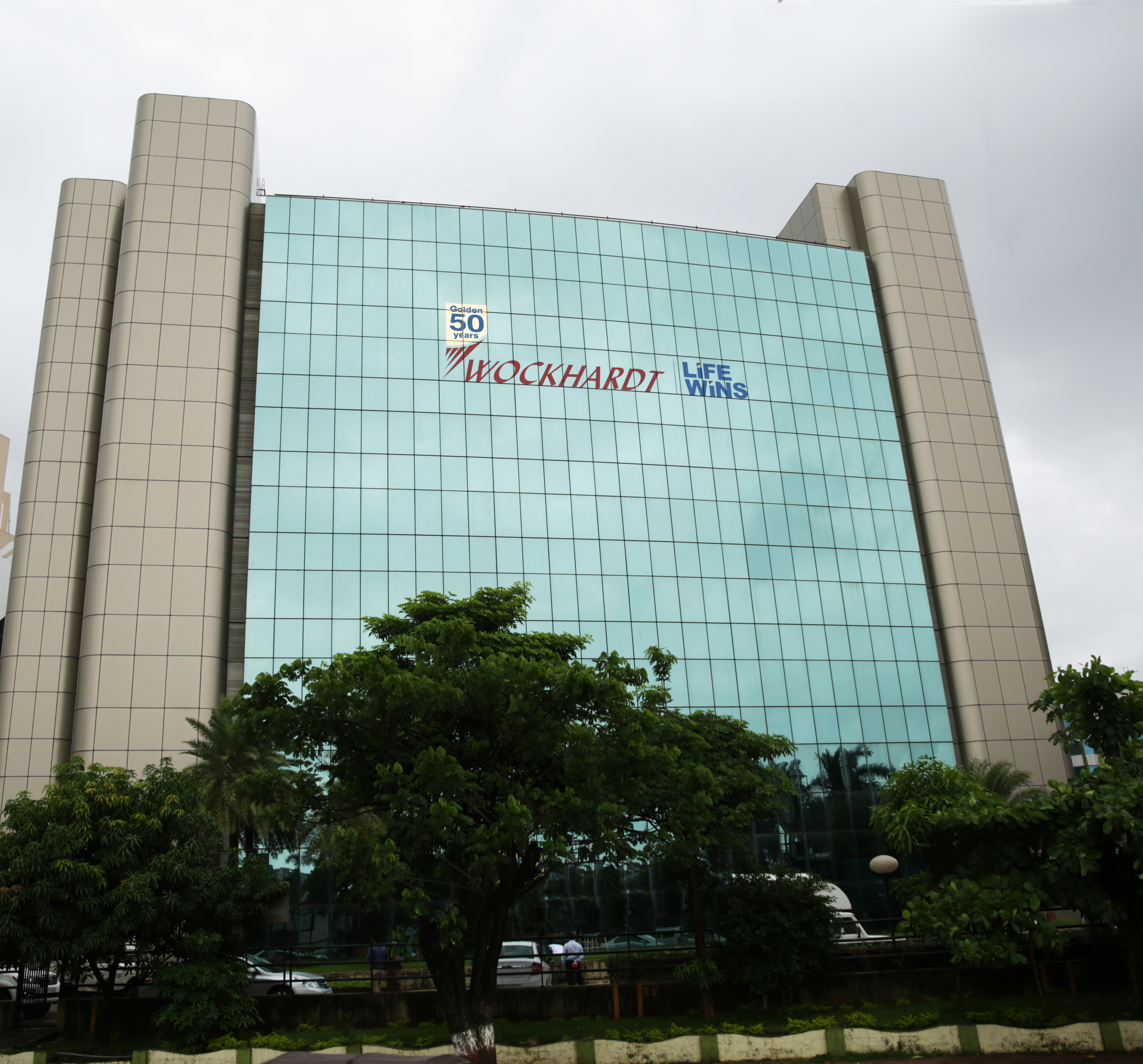 Wockhardt Hospital Mumbai